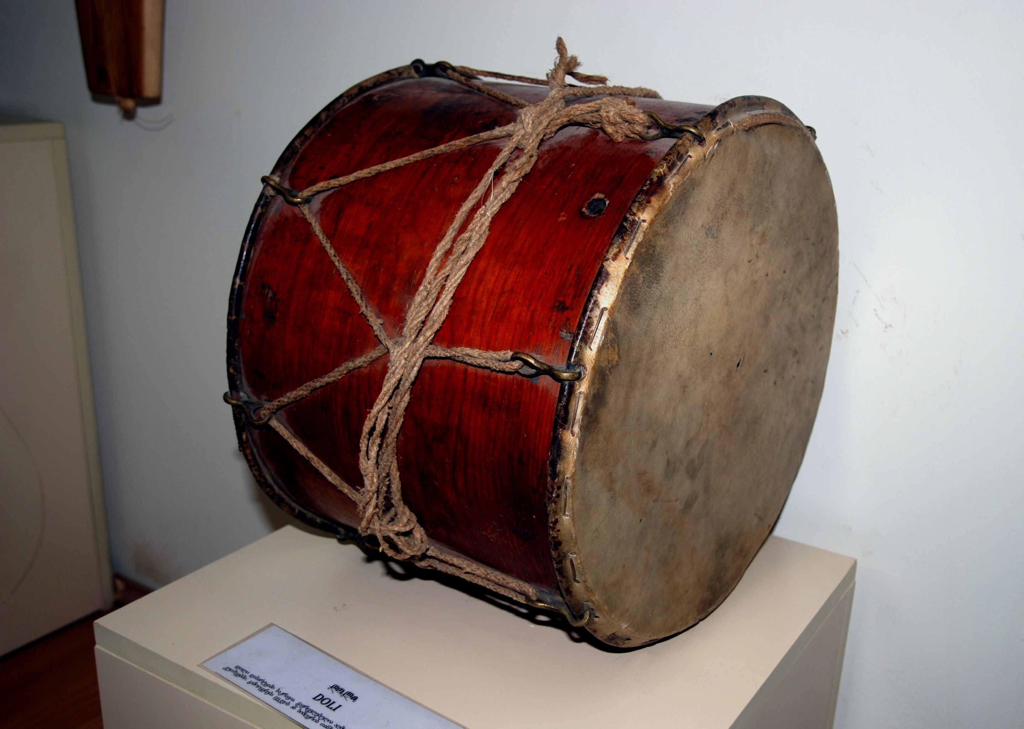 Doli, Georgian drum, State Museum of Georgian Folk Songs and Musical Instruments, Tbilisi